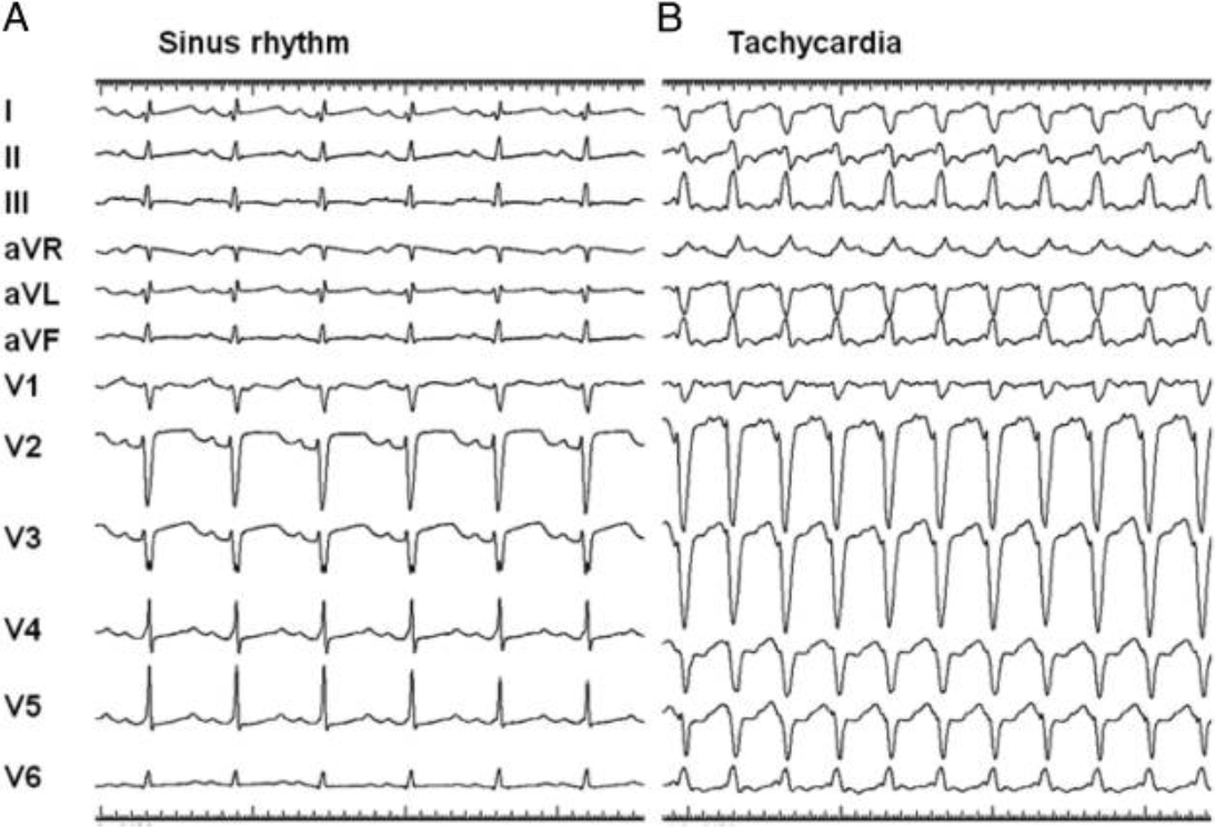 9-year-old girl with Ebstein's anomaly and Mahaim accessory pathway. ECGs recorded during sinus rhythm showing minimal pre-excitation, and during tachycardia (antedromic AVRT) showing maximal pre-excitation with LBBB morphology